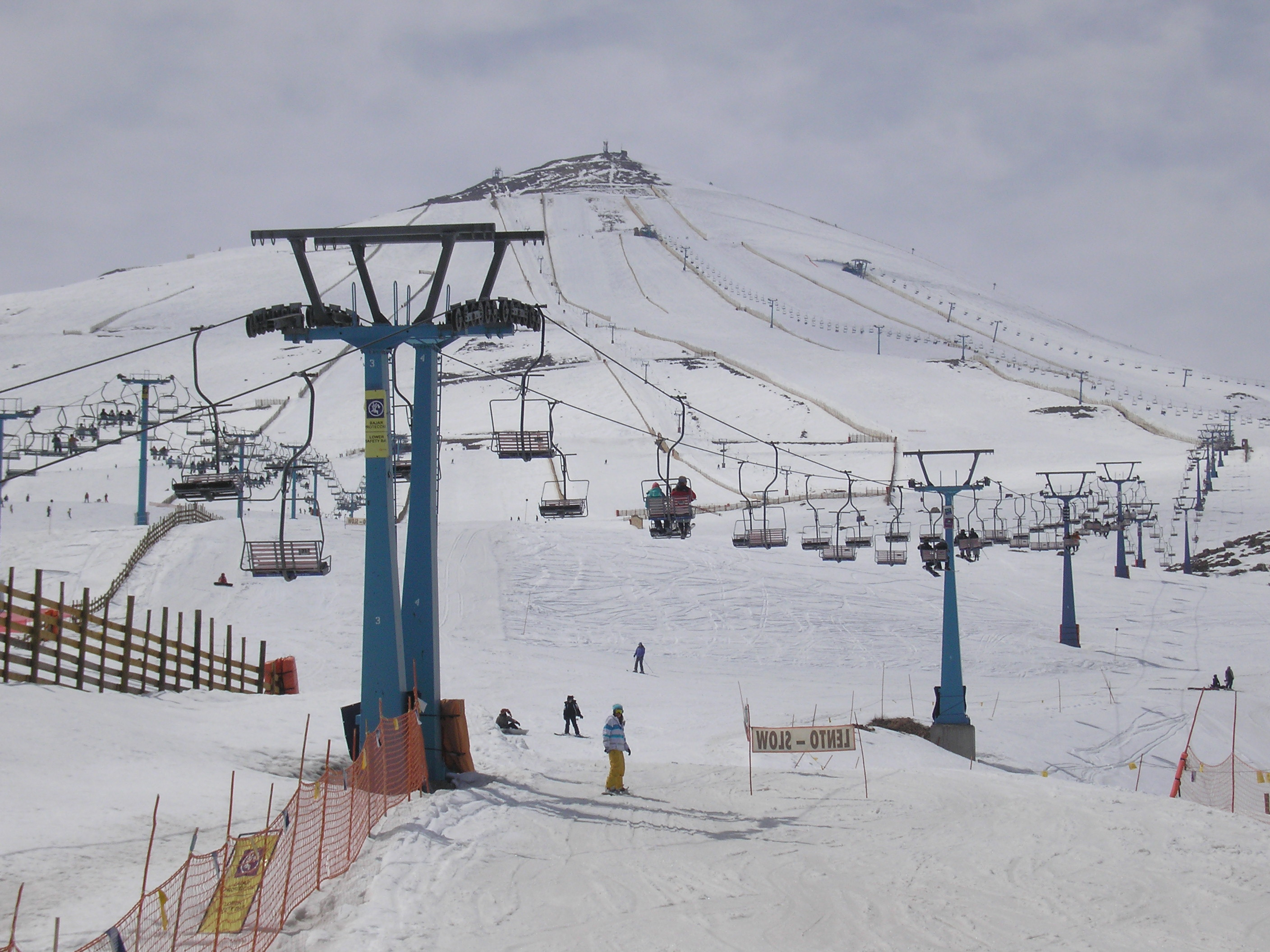 View from the bottom